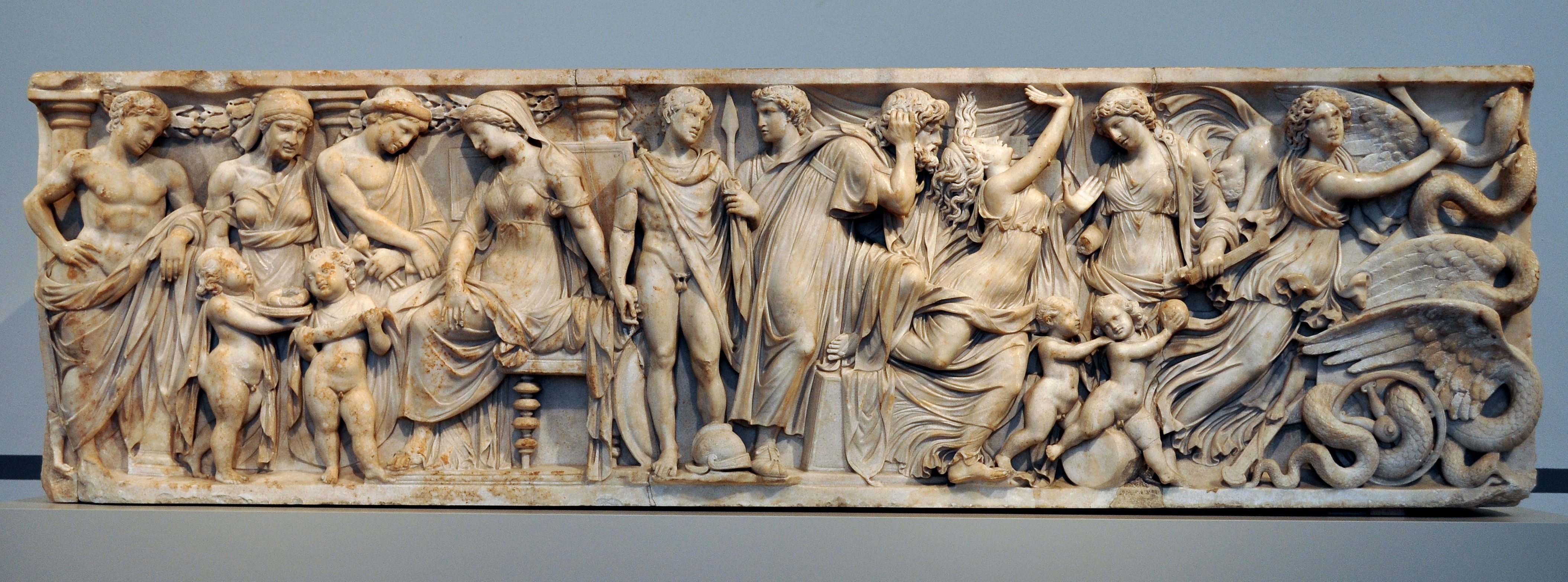 Roman sarcophagus showing the story of Medea and Creusa. Ca 150 AD. Altes Museum, Berlin. Photo by Mont Allen.